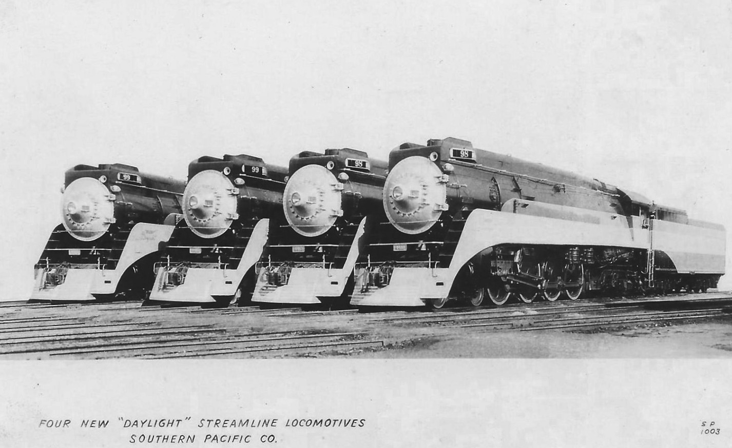 Postcard photo of 4 new GS-3 locomotives for Southern Pacific's "Coast Daylight" train. The train made its debut in 1937 with GS-2 locomotives which were replaced in late 1937 or early 1938 with the newer GS-3s.